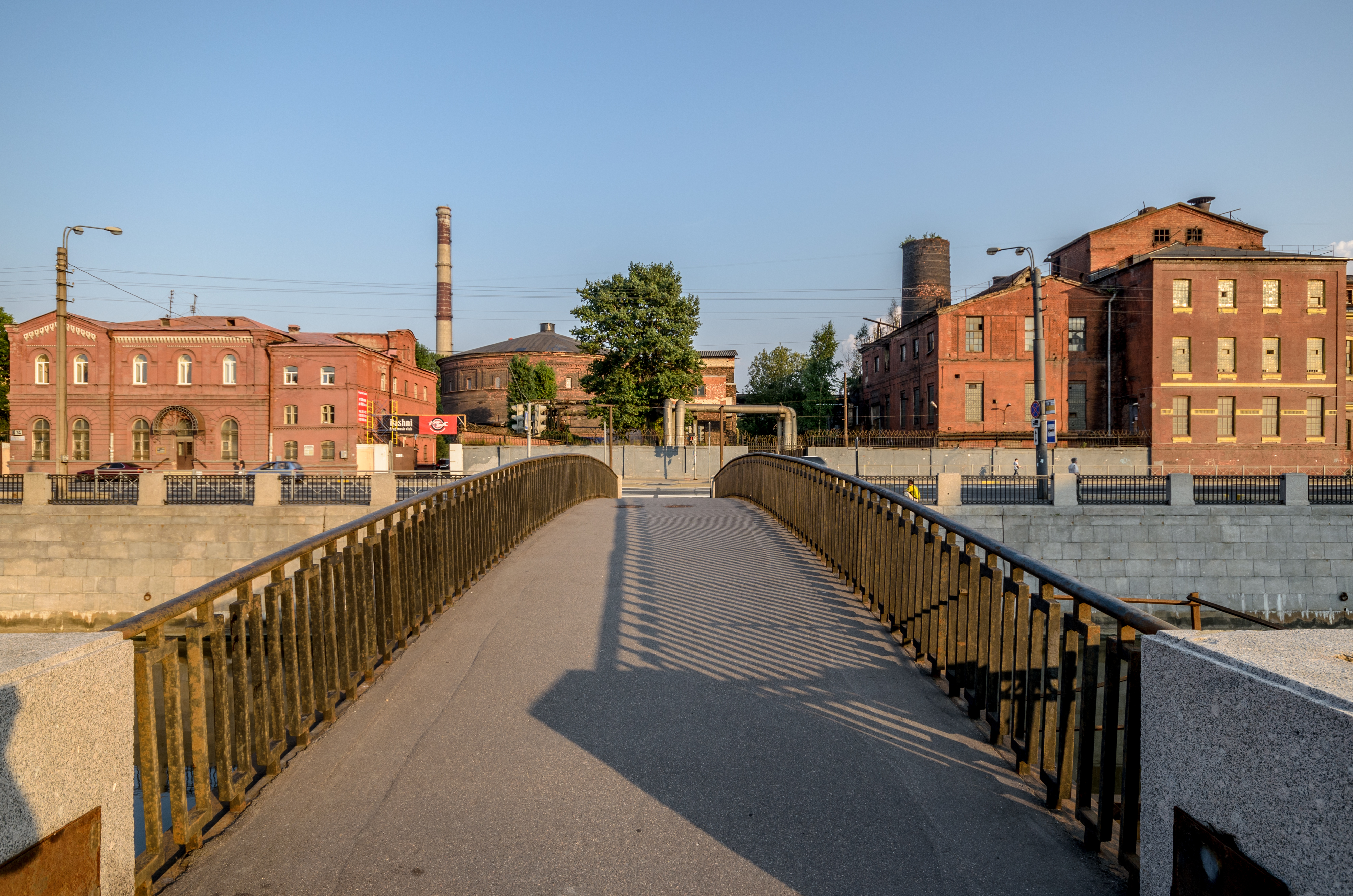 Gazoviy Bridge in Saint Petersburg, view to Petersburg Gas Plant